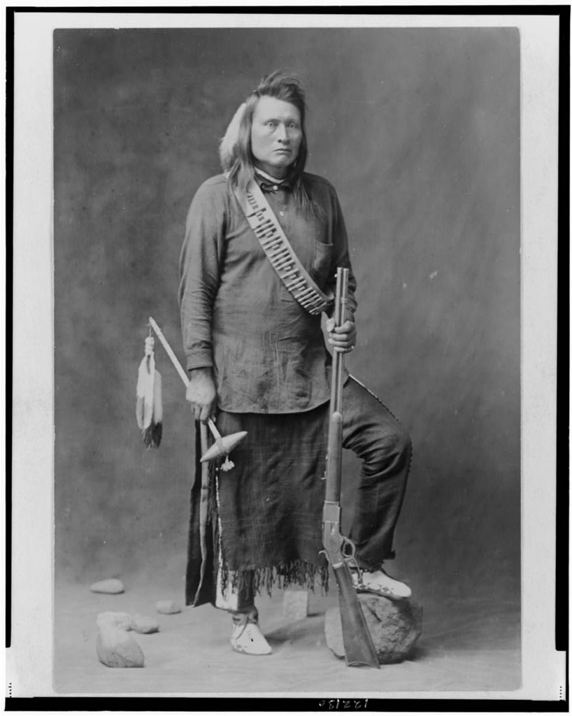 Nez Perce Warriors, War 1877 -- Him-mim-mox-mox or Yellow Wolf - Yellow Wolf, full-length portrait, facing slightly right, holding rifle and tomahawk.